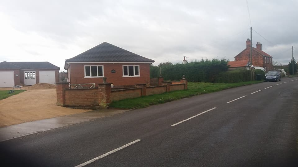 My own.